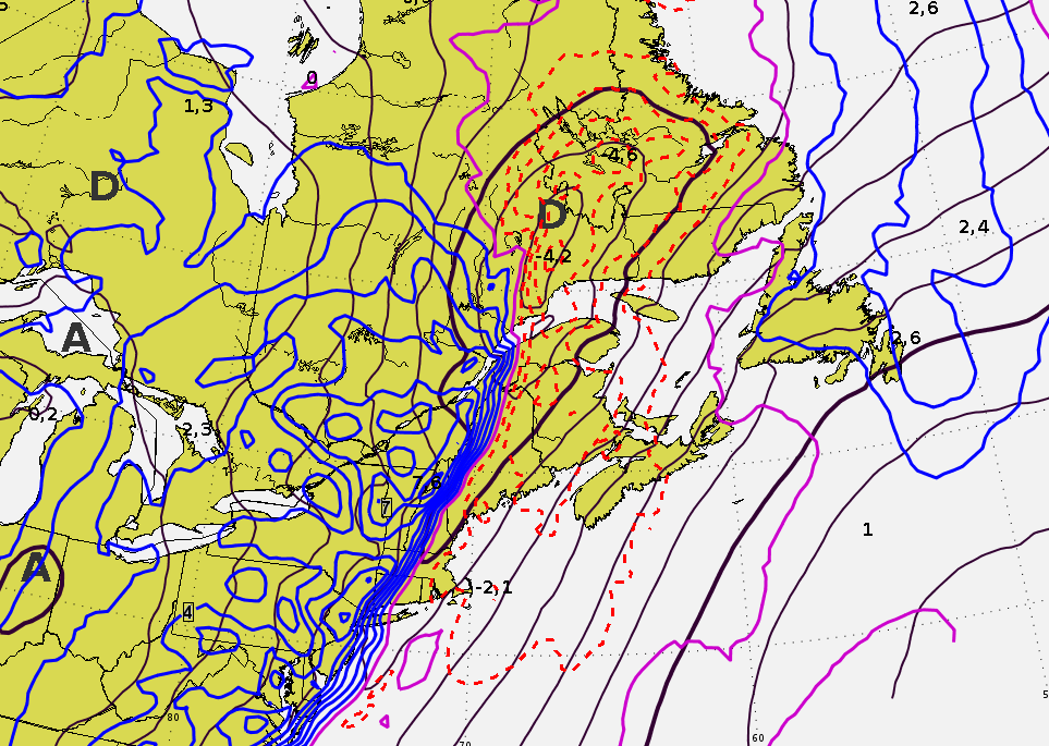 Surface map showing pressure lines (isobars) in black and tendency pressure lines (isallobars) in blue for raise of pressure and red for falling pressure. The isallobar pattern shows the direction of motion of the metorological systems and are a component of total wind.